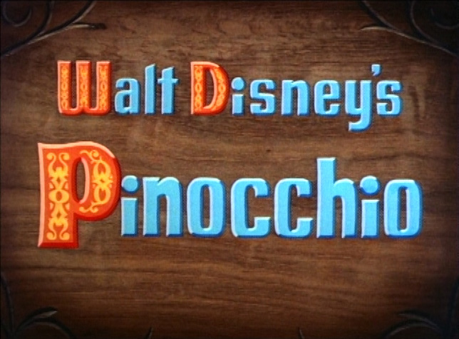 Title card for the 1940 Walt Disney film Pinocchio.